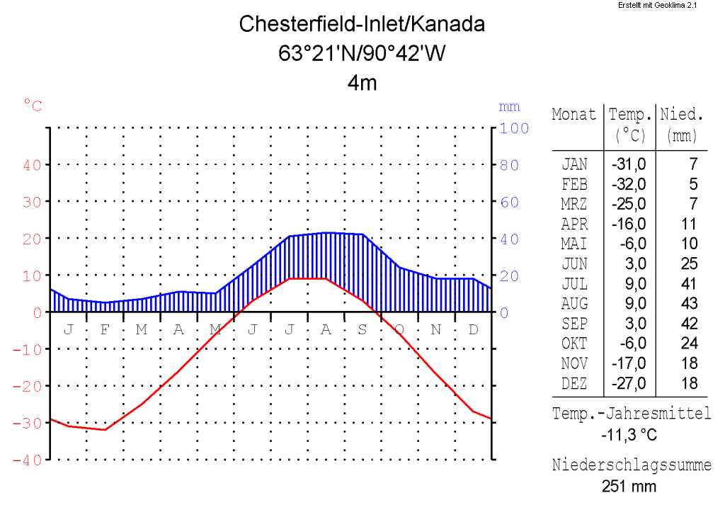 climate chart in the format by Walther and Lieth, metric, °Celsisus and millimeters, made with Geoklima 2.1